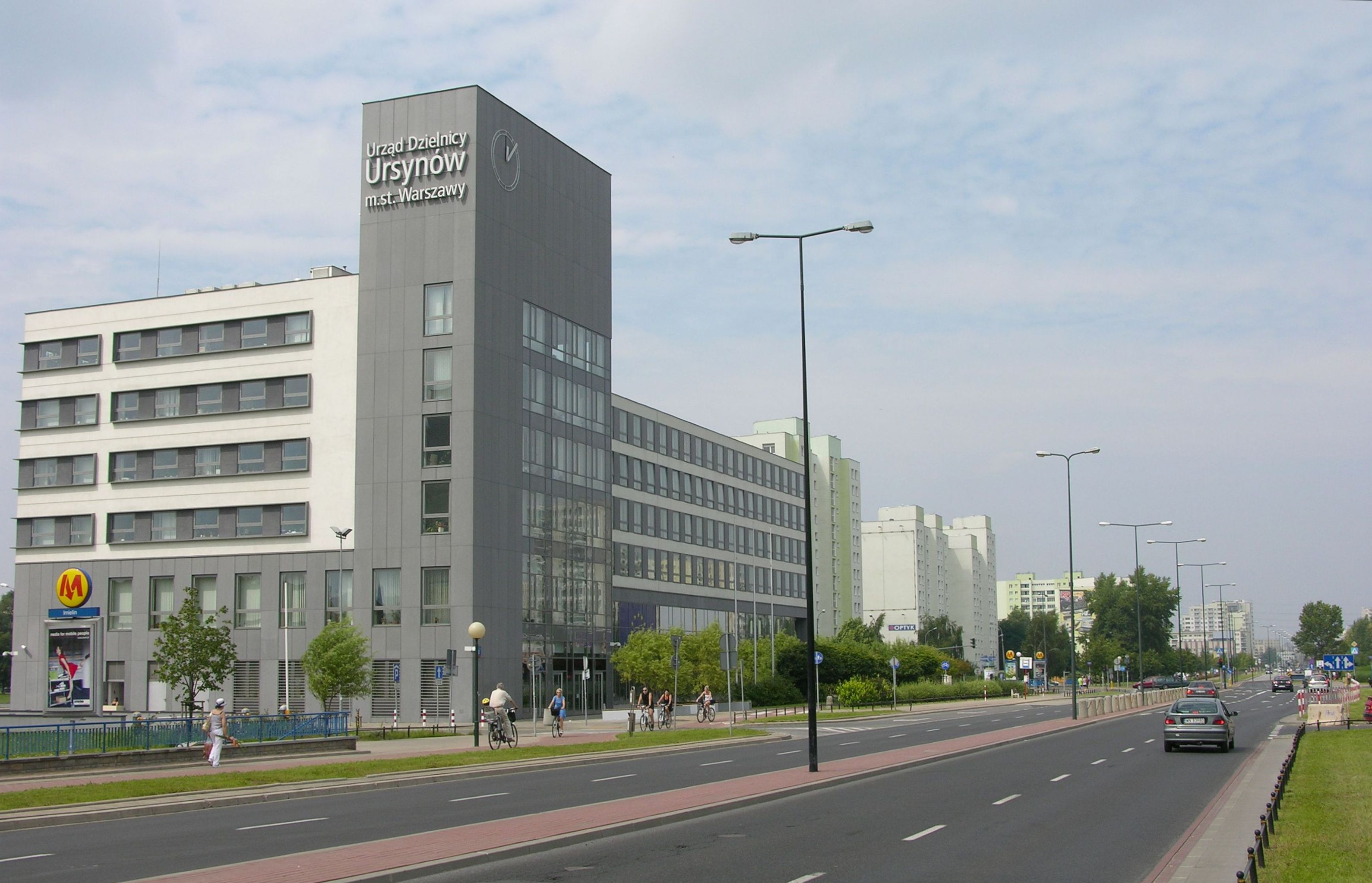 Aleja Komisji Edukacji Narodowej in Warsaw